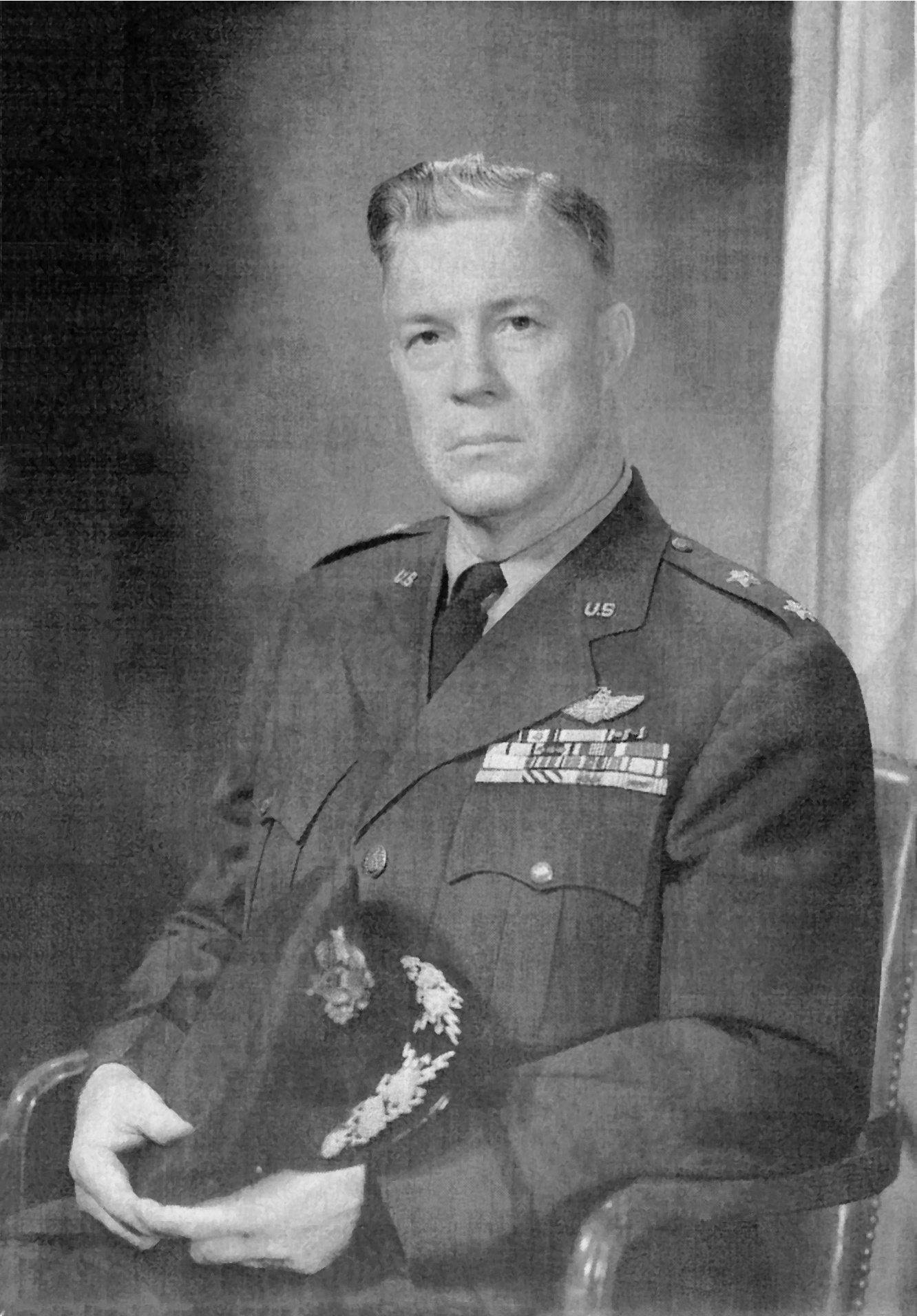 Major General Maurice Arthur Preston in an official photo. Original in color. NARA Citation 342-B-12-332-K-10049-A